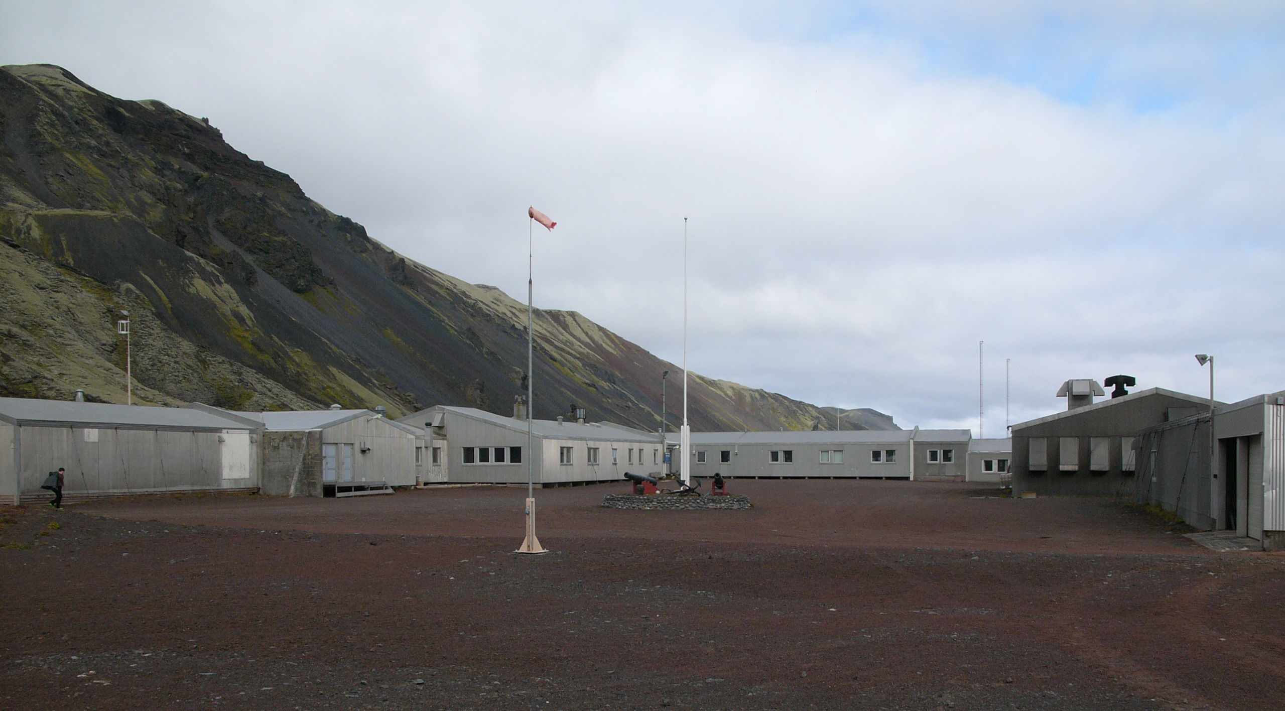 Norwegian station for research, monitoring and observation on Jan Mayen